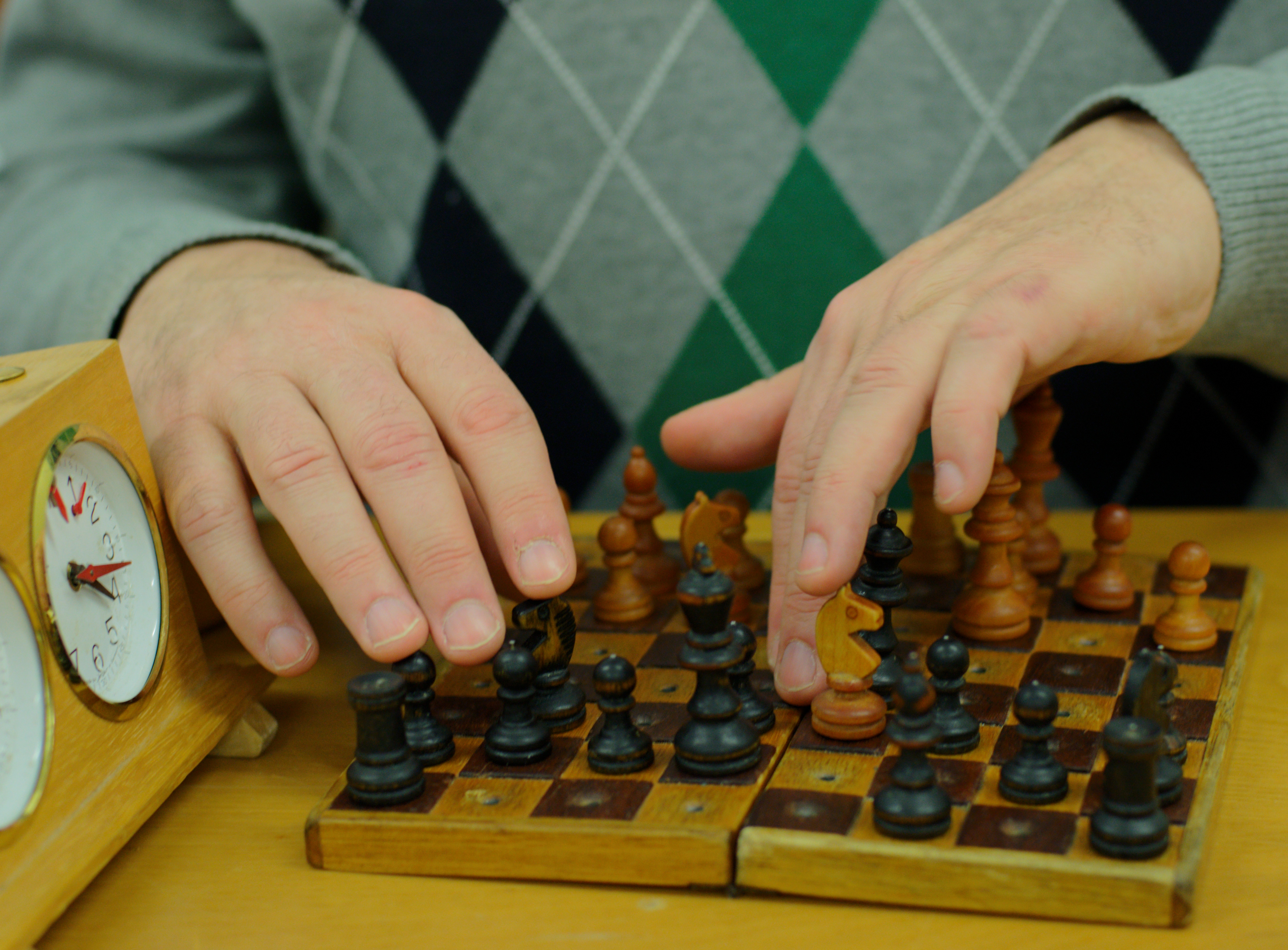 Hands of a blind chess player during a game